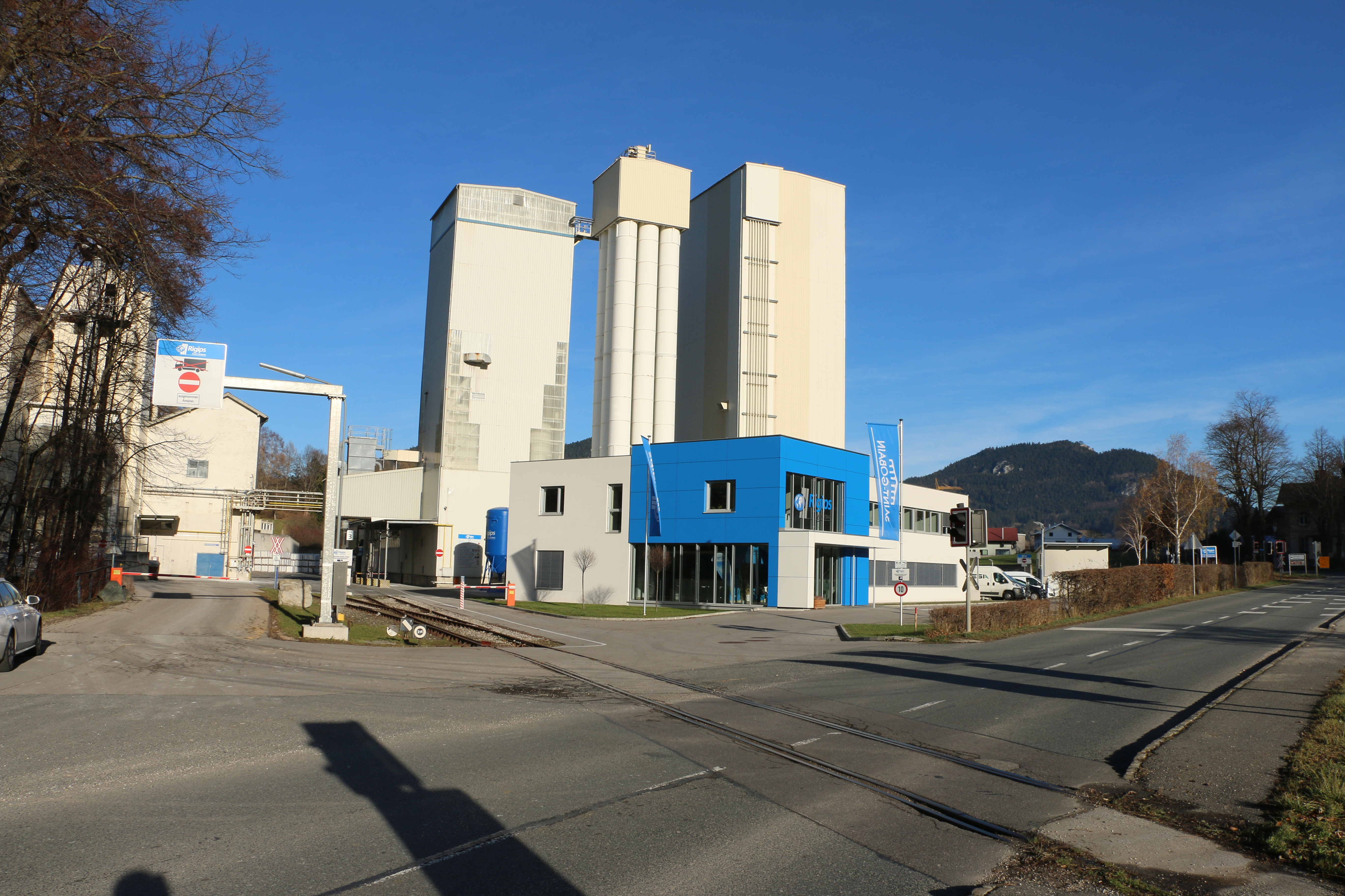 Headquarter of Rigips Austria